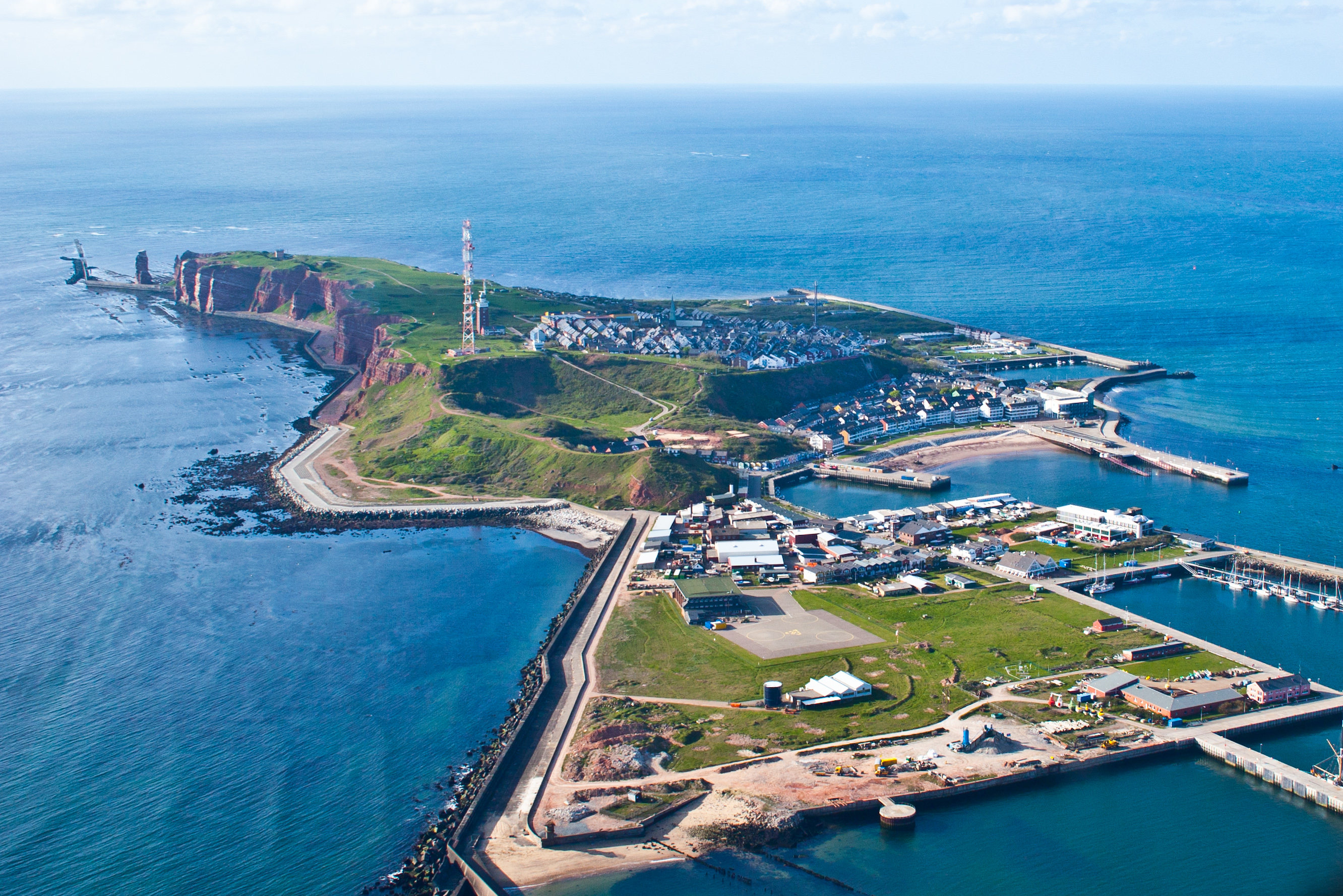 Aerial view of the offshore island Helgoland.